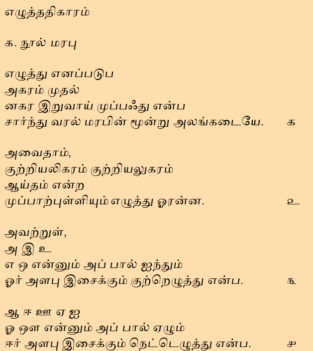 The first four verses from the Tolkappiyam. The text is ancient, and out of copyright. This image was created by me, by typing up the text in OpenOffice Draw and exporting to png.